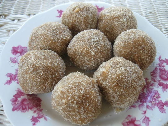 Tamarind balls as sold in some Caribbean countries